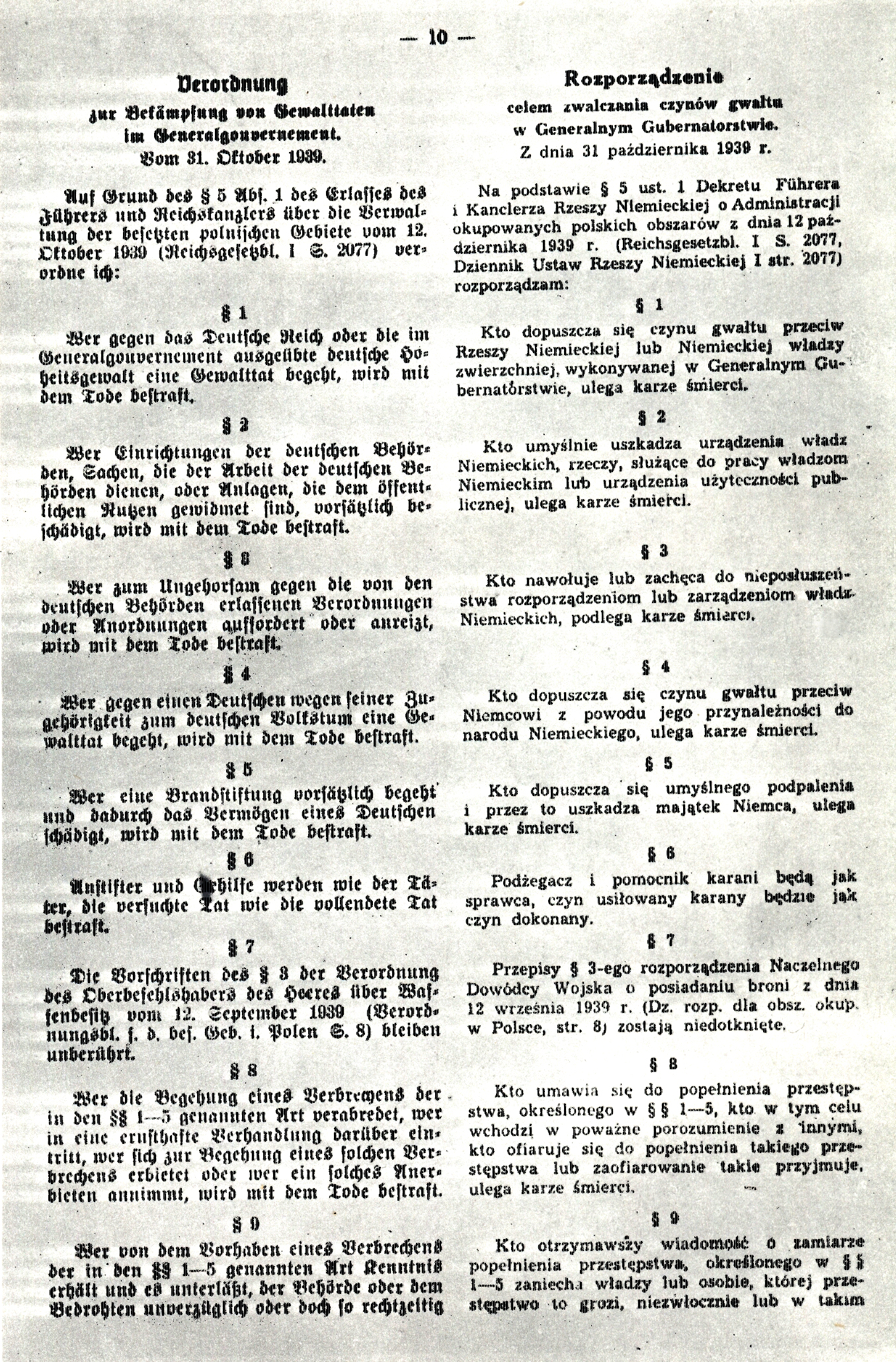 Part of Hans Frank’s ordinance from 31st October 1939 on “counteracting the acts of violence in Generalgouvernement”. According to this ordinance a death penalty was introduced for, among other things, 1) any acts against the German government and people of German origins 2) unlawful possession of a weapon.